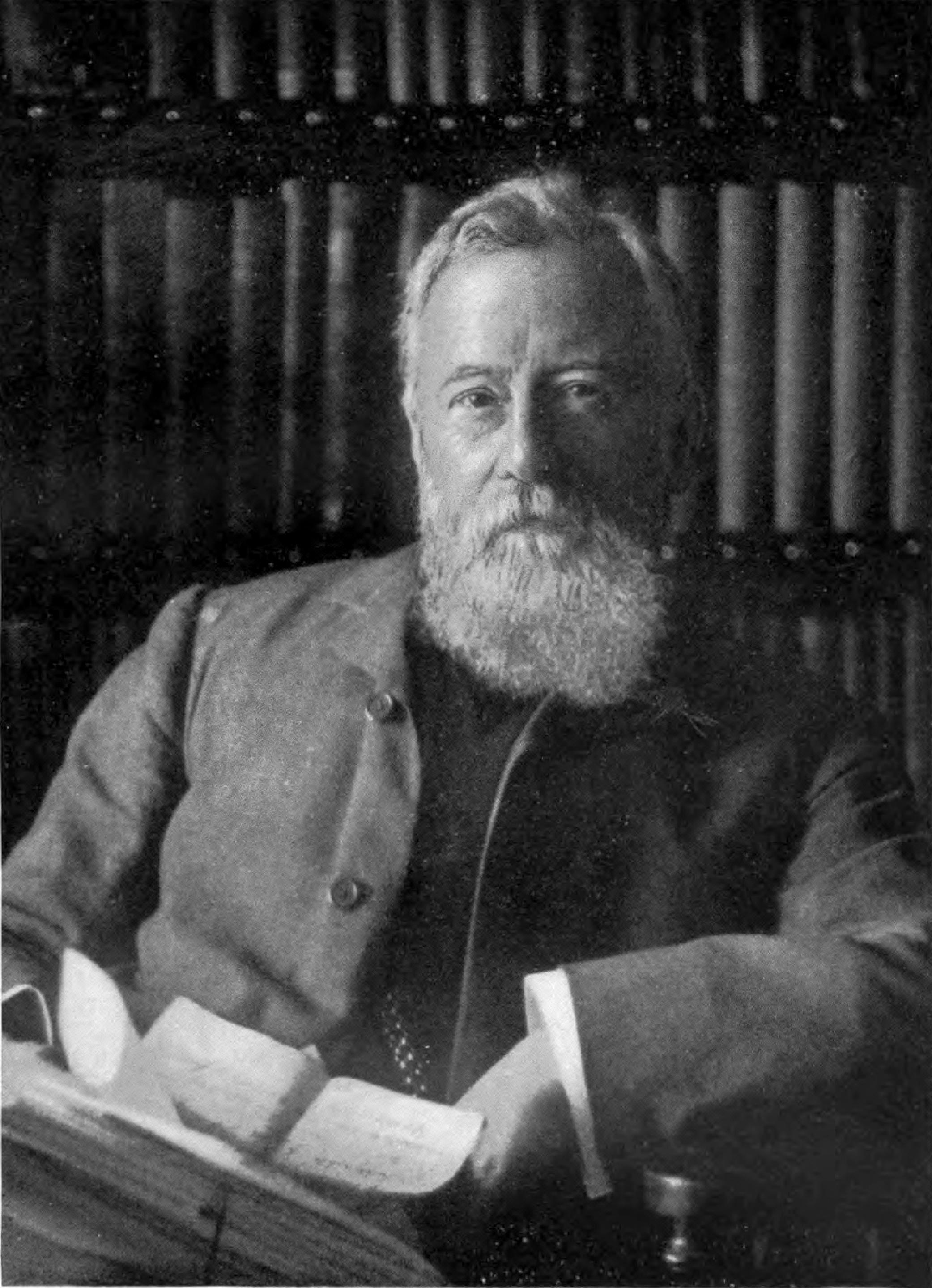 Robert Spence Watson (8 June 1837–2 March 1911) was an English solicitor, reformer, politician and writer.